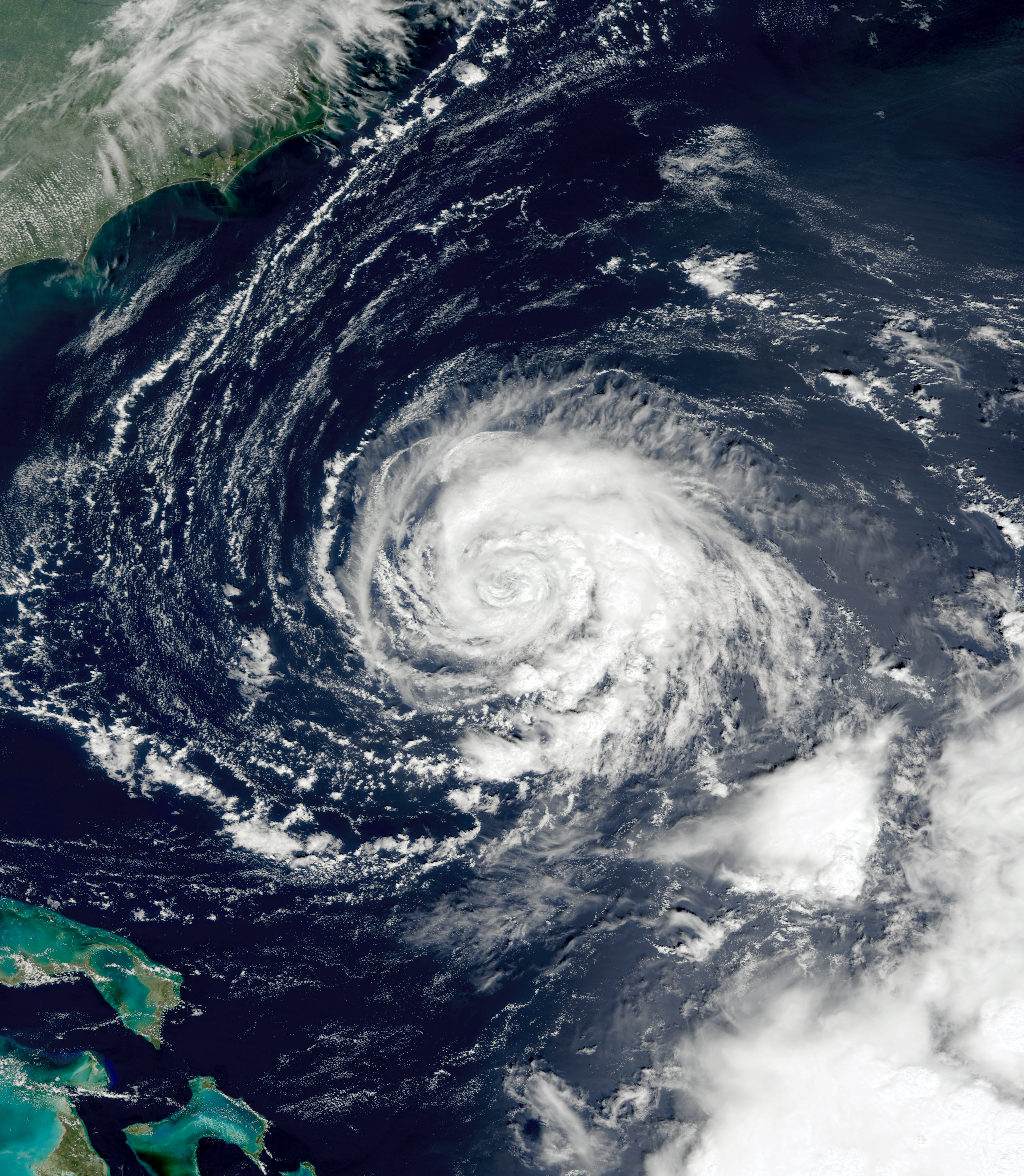 Terra image of Hurricane Florence (2000)